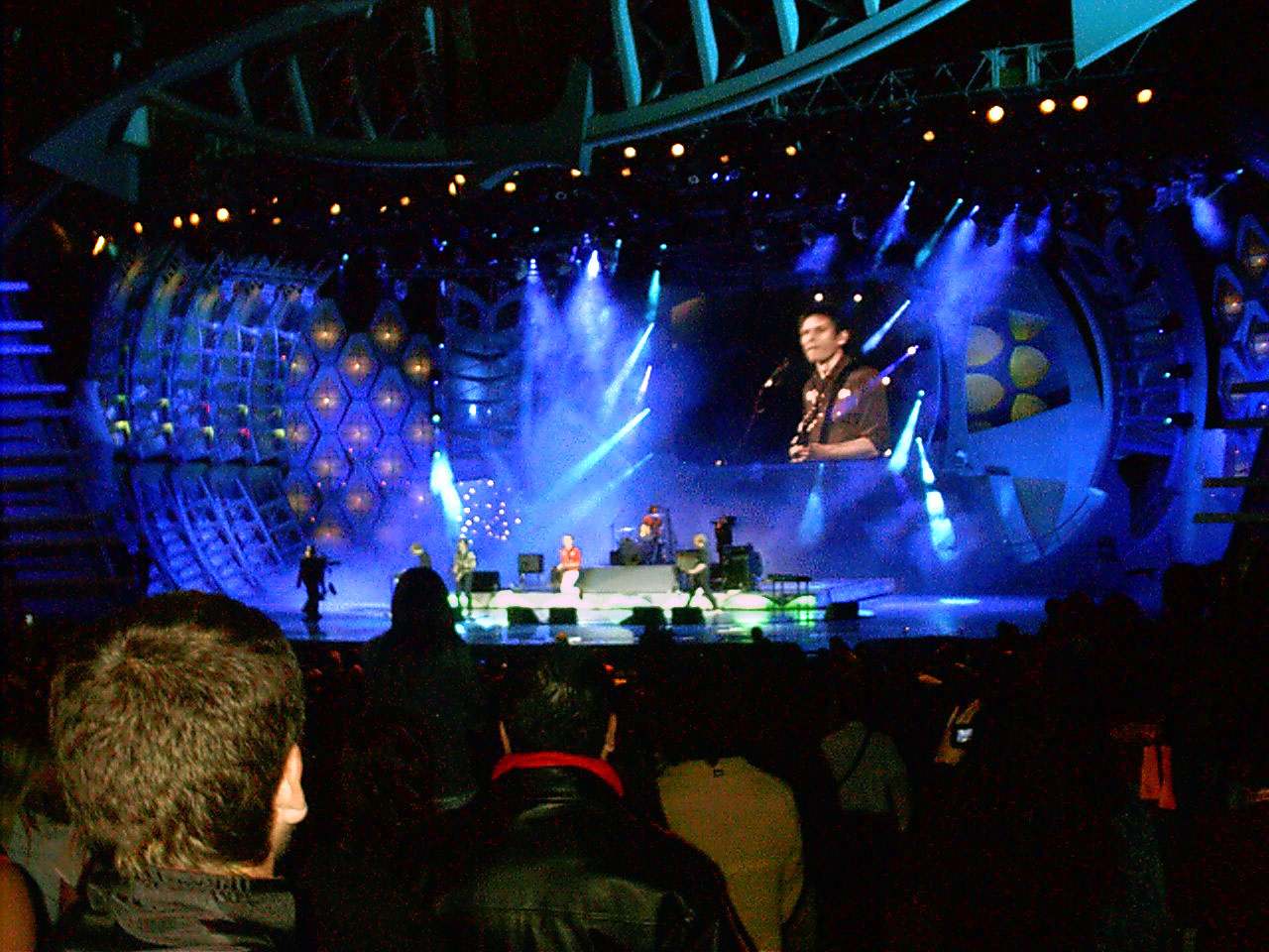 Franz Ferdinand at Viña del Mar International Festival. February 27th, 2006